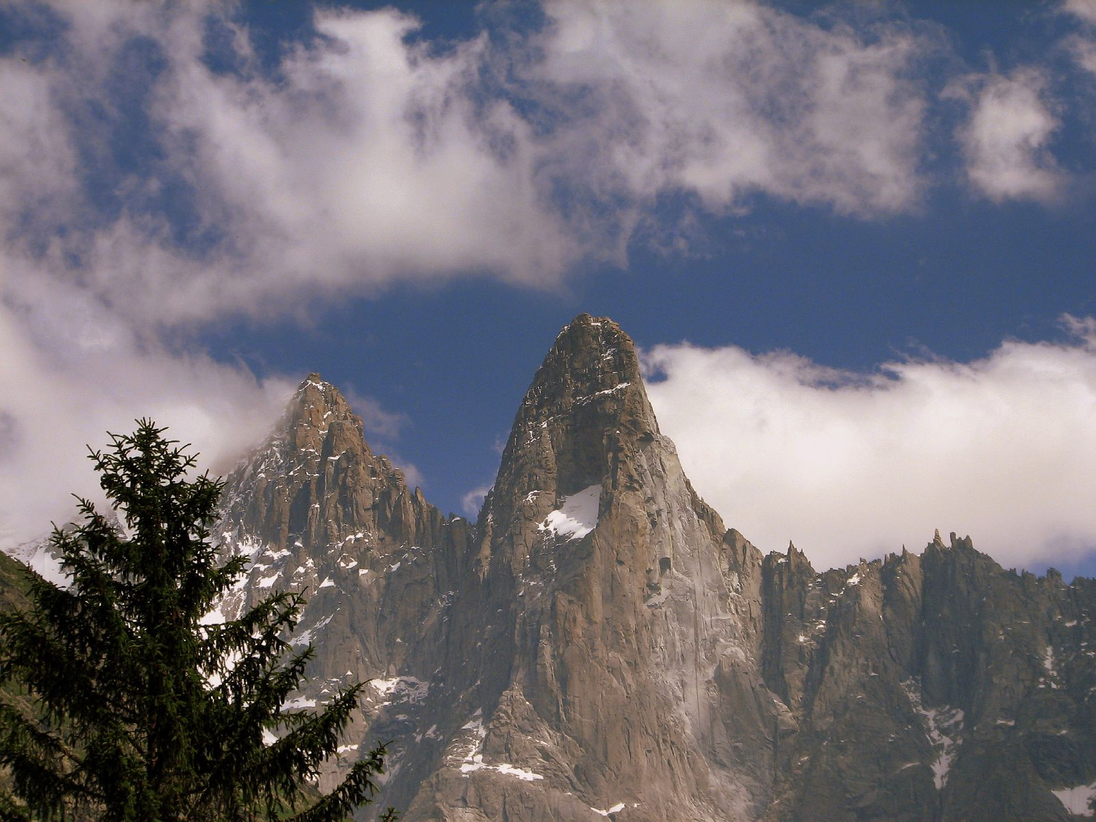 Les Drus viewed from North West